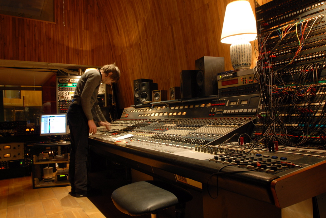 Neve 8048, Svenska Grammofonstudion, Gothenburg Sweden.jpg2